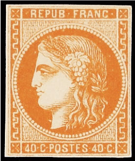 Stamp of France /Ceres / Bordeaux issue 1870 - 1871 / 40 cts orange